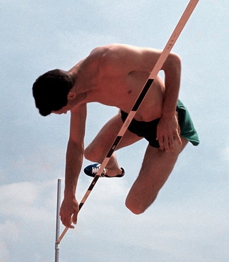 The Australian athlete Lawrence Peckham performs a high jump; the young man is training at the Miguel Hidalgo olympic village in preparation for the XIX Olympic Games. Mexico City (Mexico), October 1968